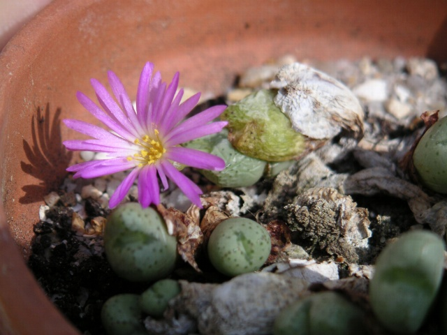 Personnal collection